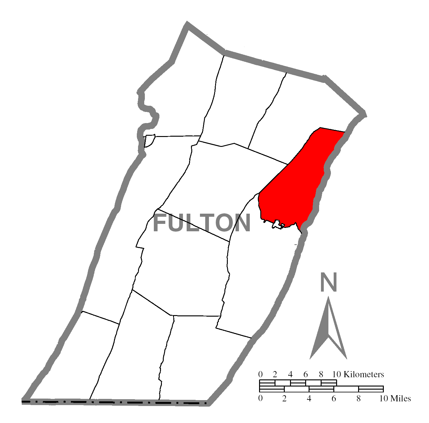 A map of Fulton County showing Todd Township, Pennsylvania (alternate) highlighted on the map.